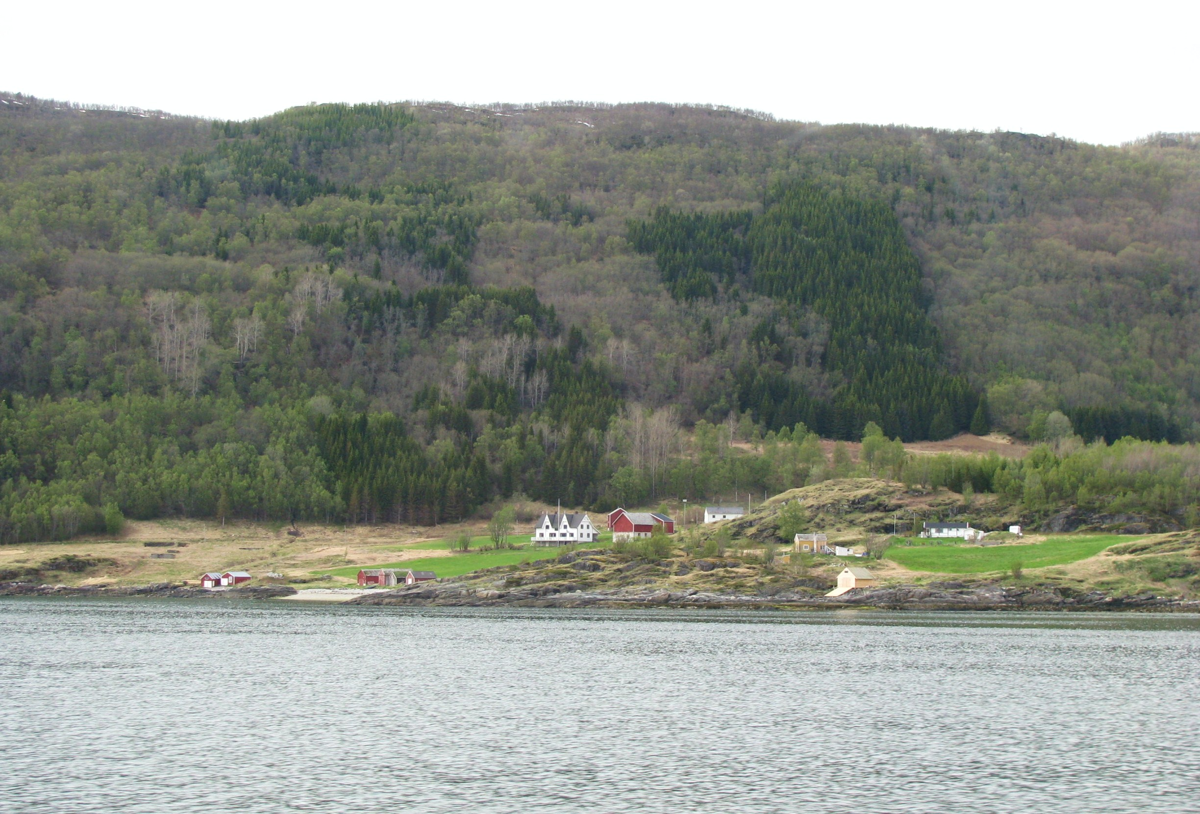 Farm and forest landscape in Dyrøy, Troms, Norway. Approximately 300 km north of the Arctic Circle. Planted spruce trees are easily spotted as green fields in the landscape this early in summer (24.May). Norsk (bokmål): Landskap med småbruk og plantefelt. Dyrøy, Troms. 24. mai 2010.